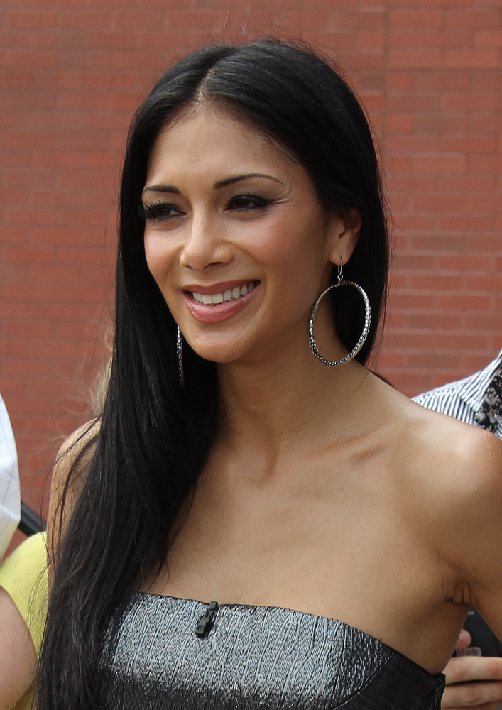 Nicole Scherzinger on June 9, 2011